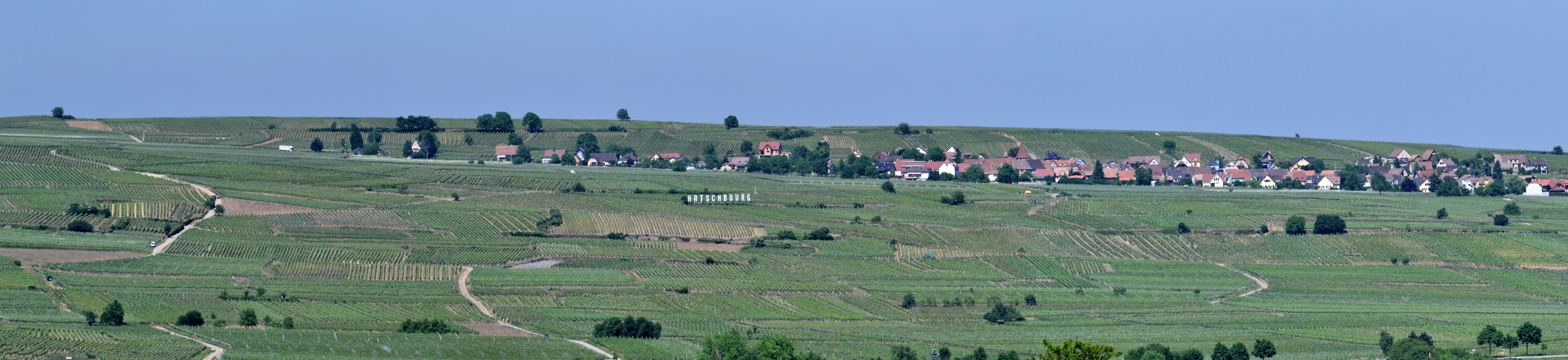 Hatschbourg vineyard, Hattstatt and Voegtlinshoffen, Alsace, France